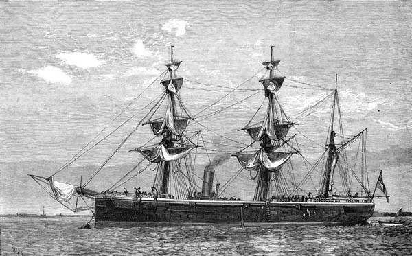 Drawing of the HMS Doterel